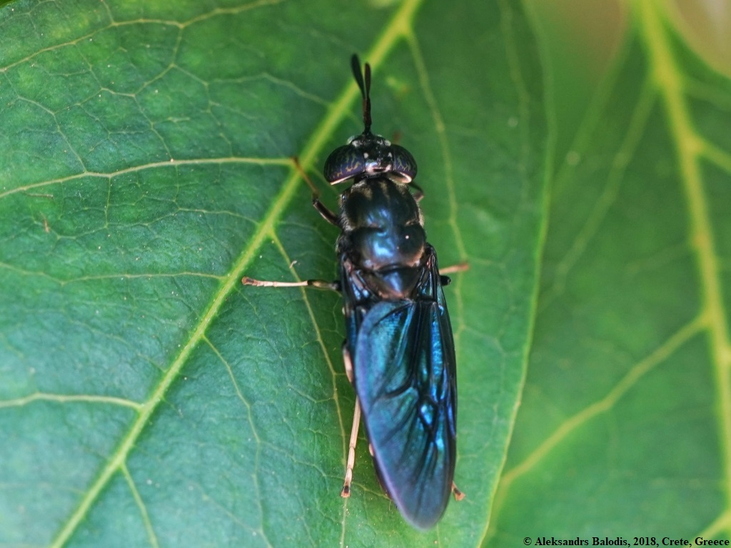 Hermetia illucens